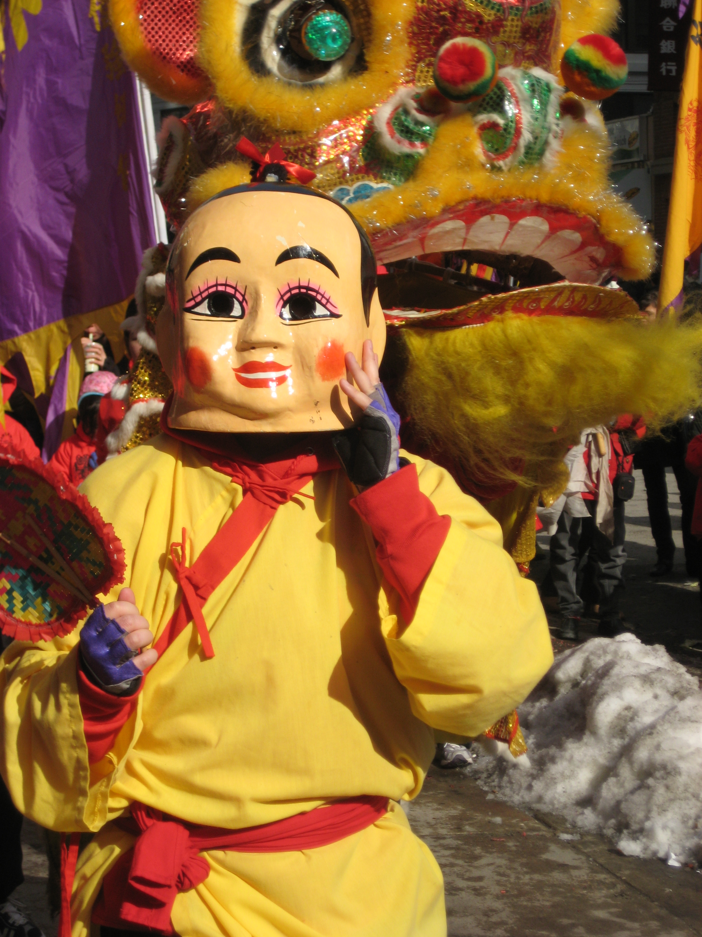 Chinese New Year festival in Chinatown. February 2009 photo by John Stephen Dwyer